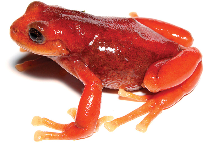 Pristimantis erythros